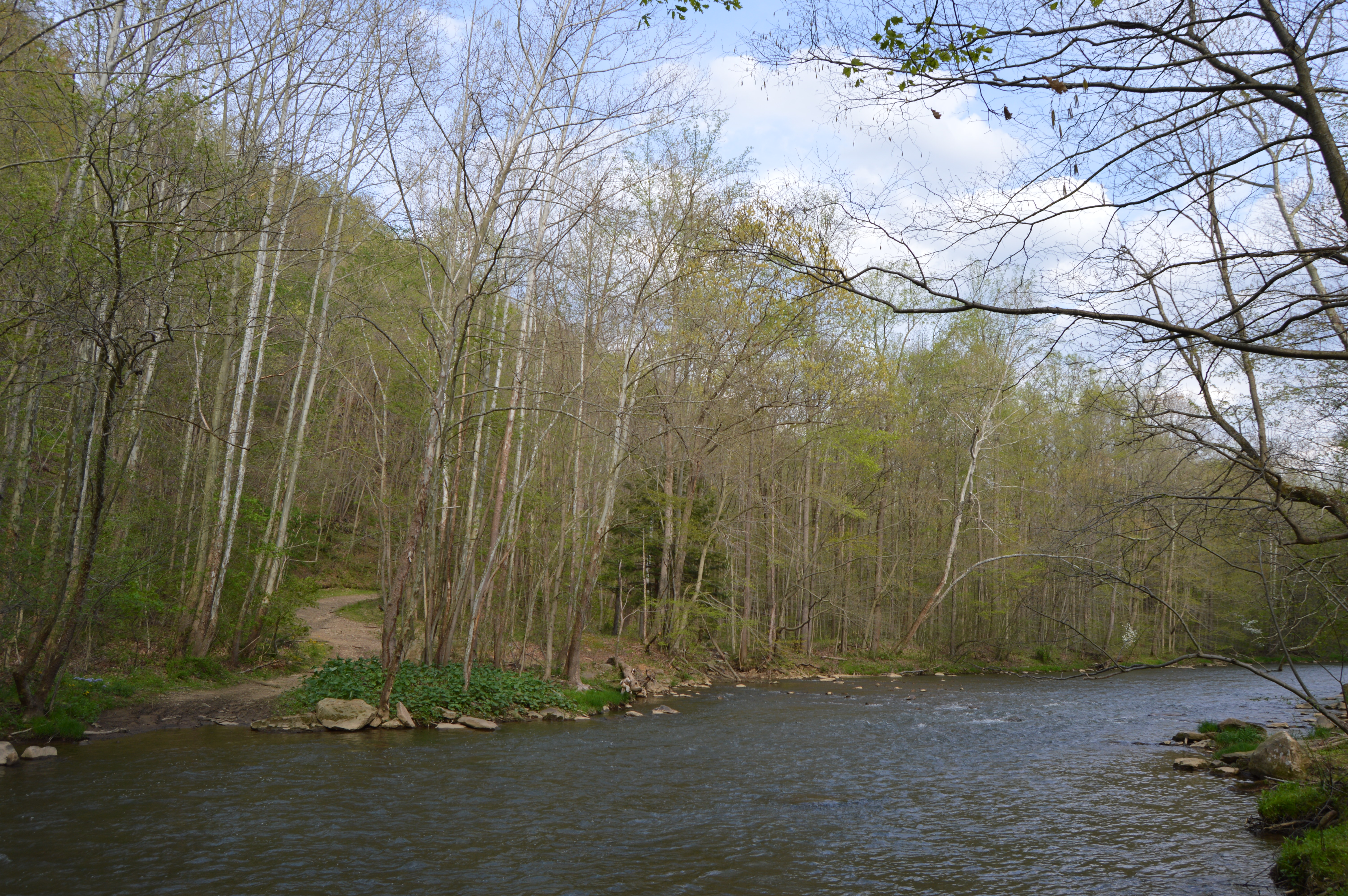 Looking upstream on Jacobs Creek about 2½ miles above its confluence with the Youghiogheny River in Fields and farms east of Alverton looking east from Hodge Road just north of Pennsylvania Route 981 in Perry Township, Fayette County, Pennsylvania, United States. Photo is taken from the Alliance Furnace parking area, and the other side is part of South Huntingdon Township in Westmoreland County.